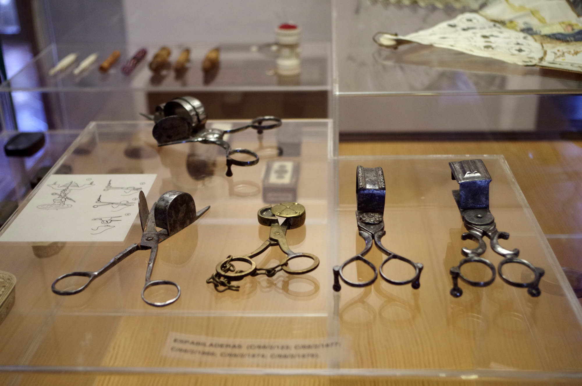 Candle snuffers in Ávila Museum (Casa de los Deanes building) (Ávila, Spain).